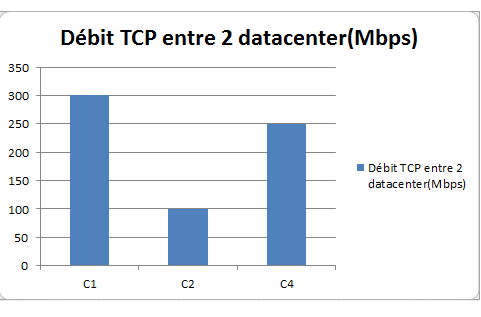 Résultat Réseau2. test TCP entre 2 datacenter